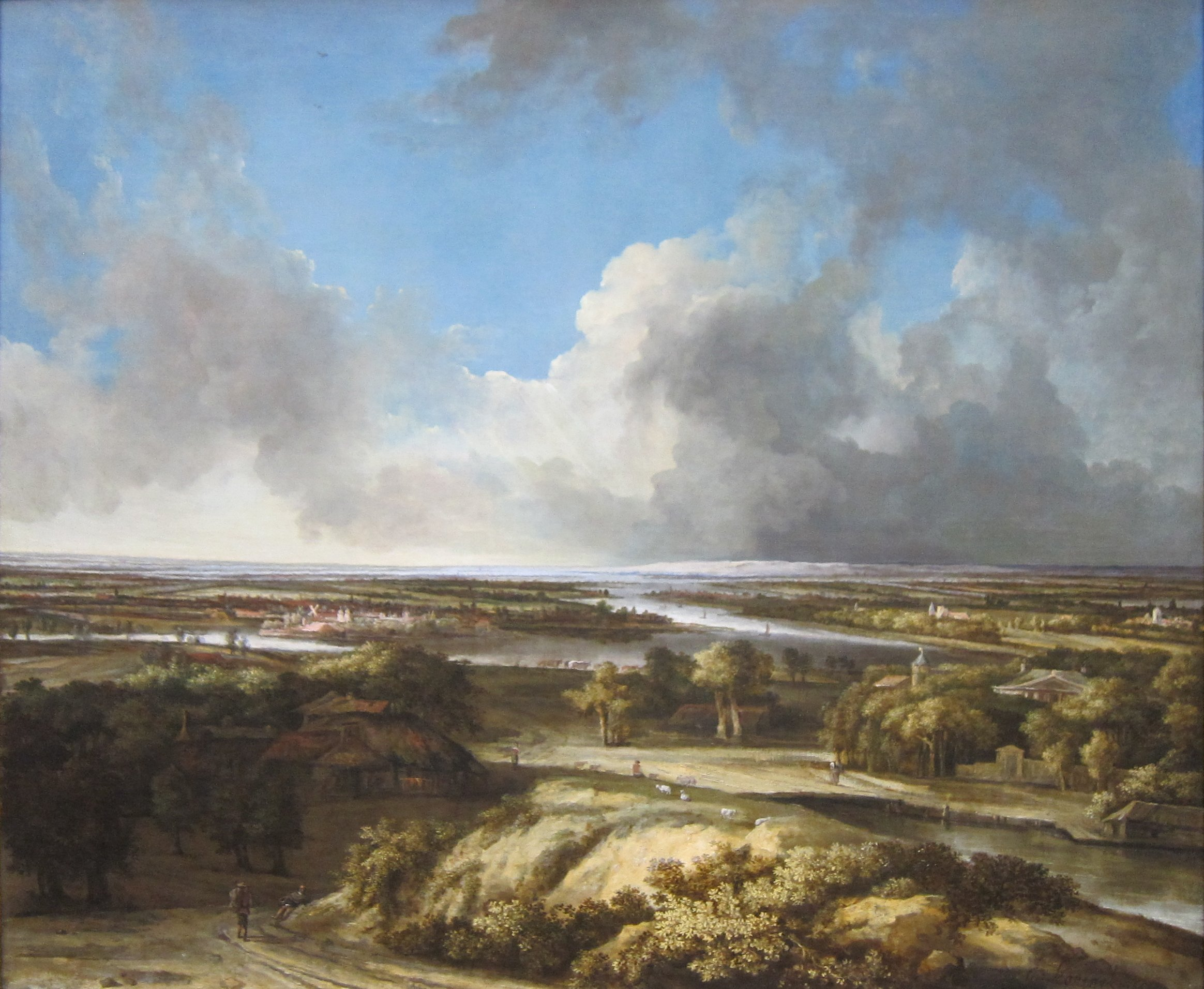 A Panoramic Landscape